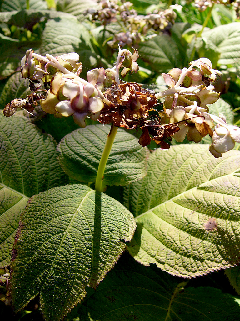 Plant "Deinanthe Bifida"